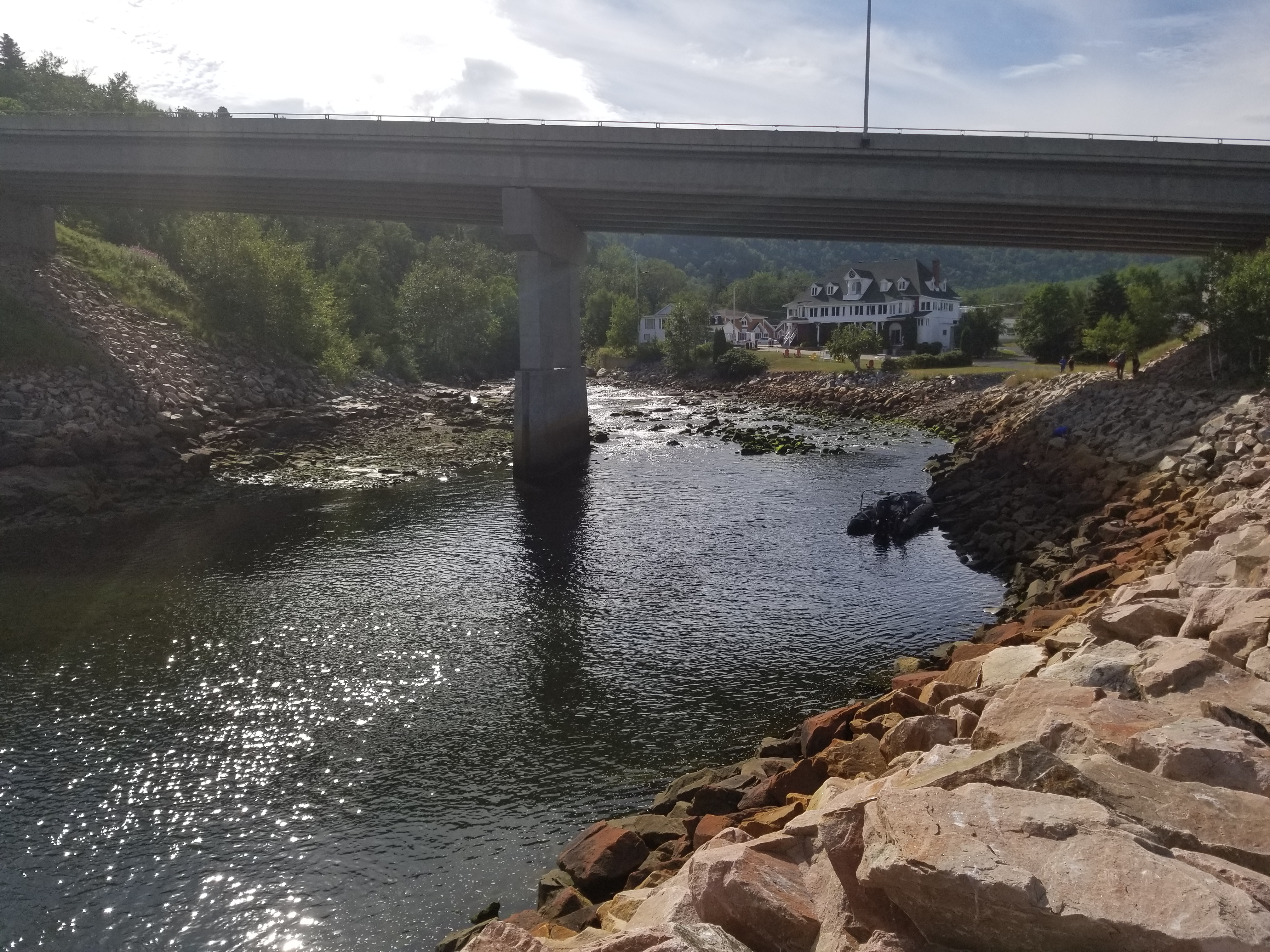 Bridge on Route 138 spanning the Black River at Saint-Siméon.